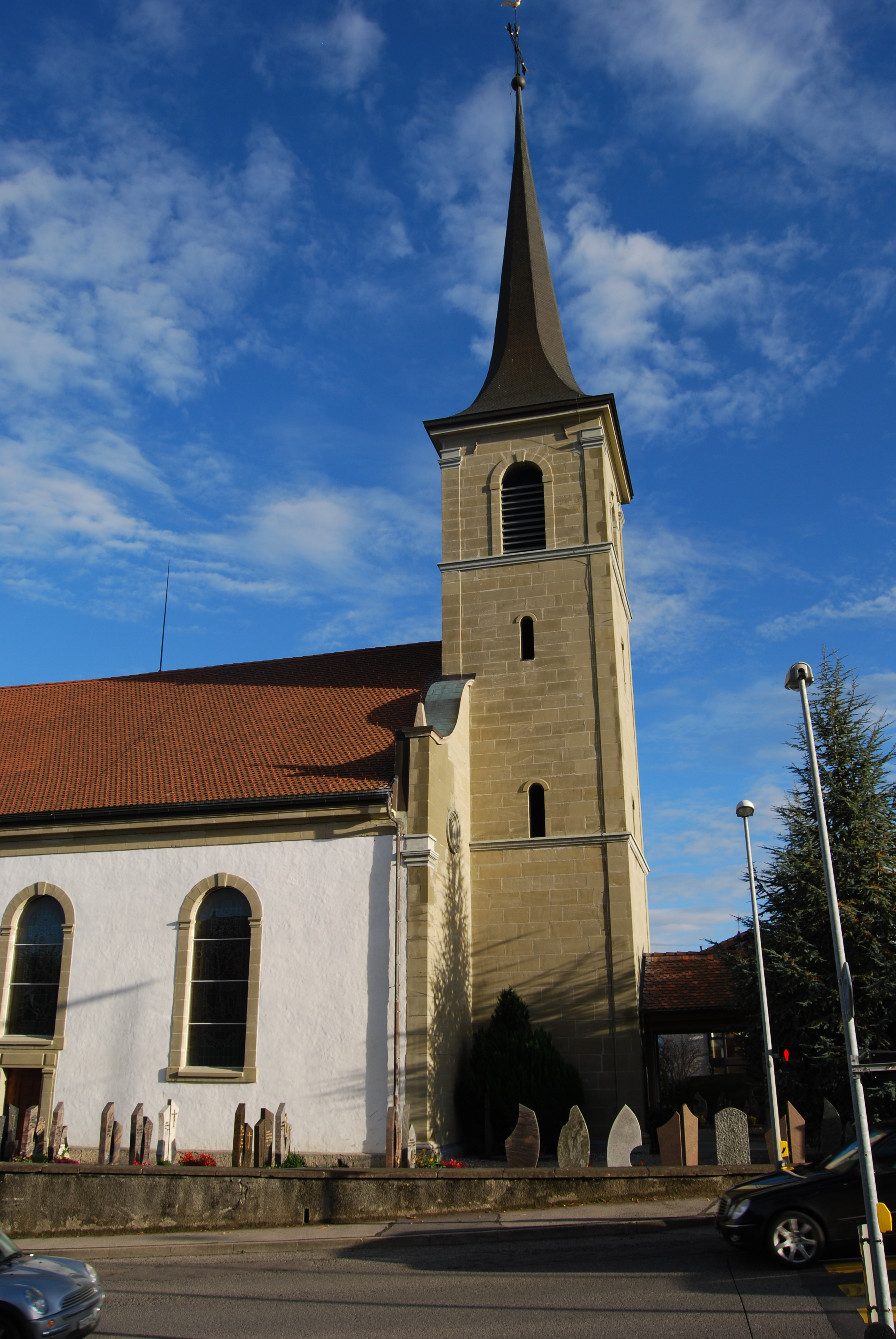 Catholic Church of Neyruz, canton of Fribourg, Switzerland